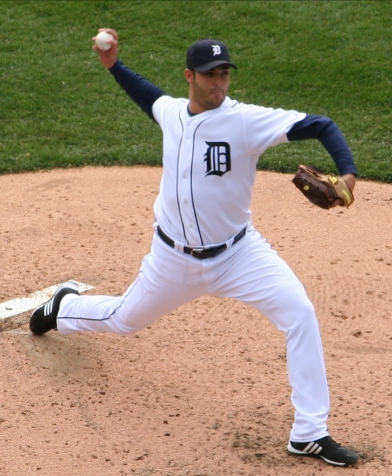 Armando Galarraga in 2009